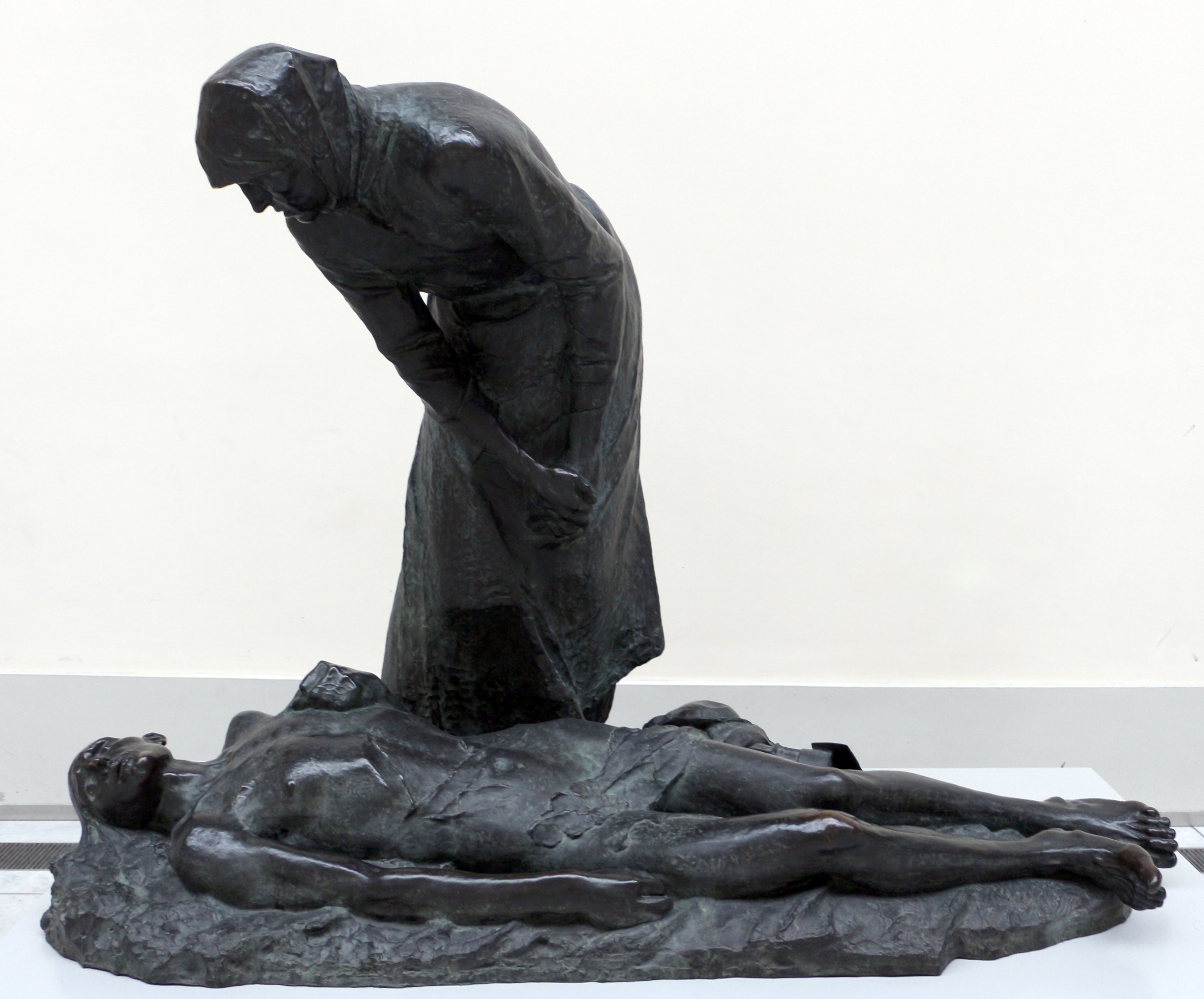 Sculptures in the Royal Museums of Fine Arts of Belgium